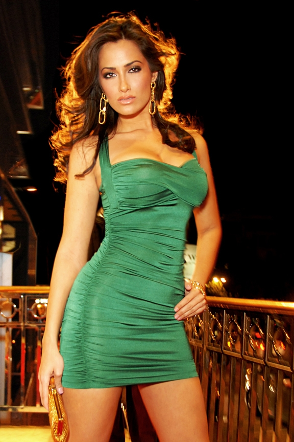 Donna Feldman attending the launch Party for "310 Model Agency" at One Sunset, West Hollywood, CA on 10/10/2008 - Photo by Glenn Francis of